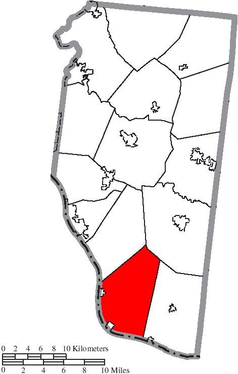 Map of the municipal and township boundaries of Clermont County, Ohio, United States, as of the 2000 census, with the location of Washington Township highlighted. Township borders are shown only in unincorporated areas in order to differentiate incorporated and unincorporated areas more clearly.